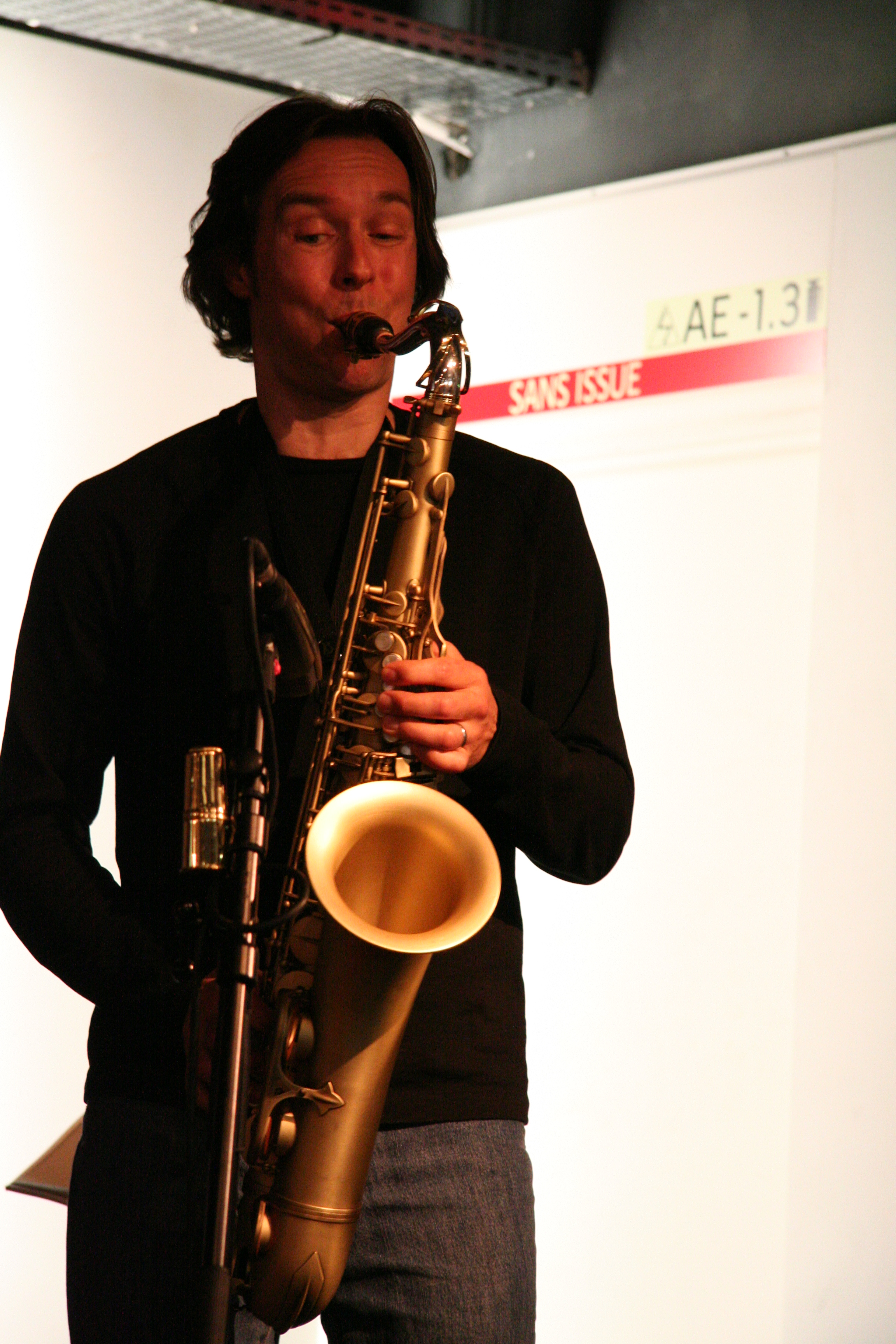 Show-case with Stacey Kent at Fnac Montparnasse (Paris, France).